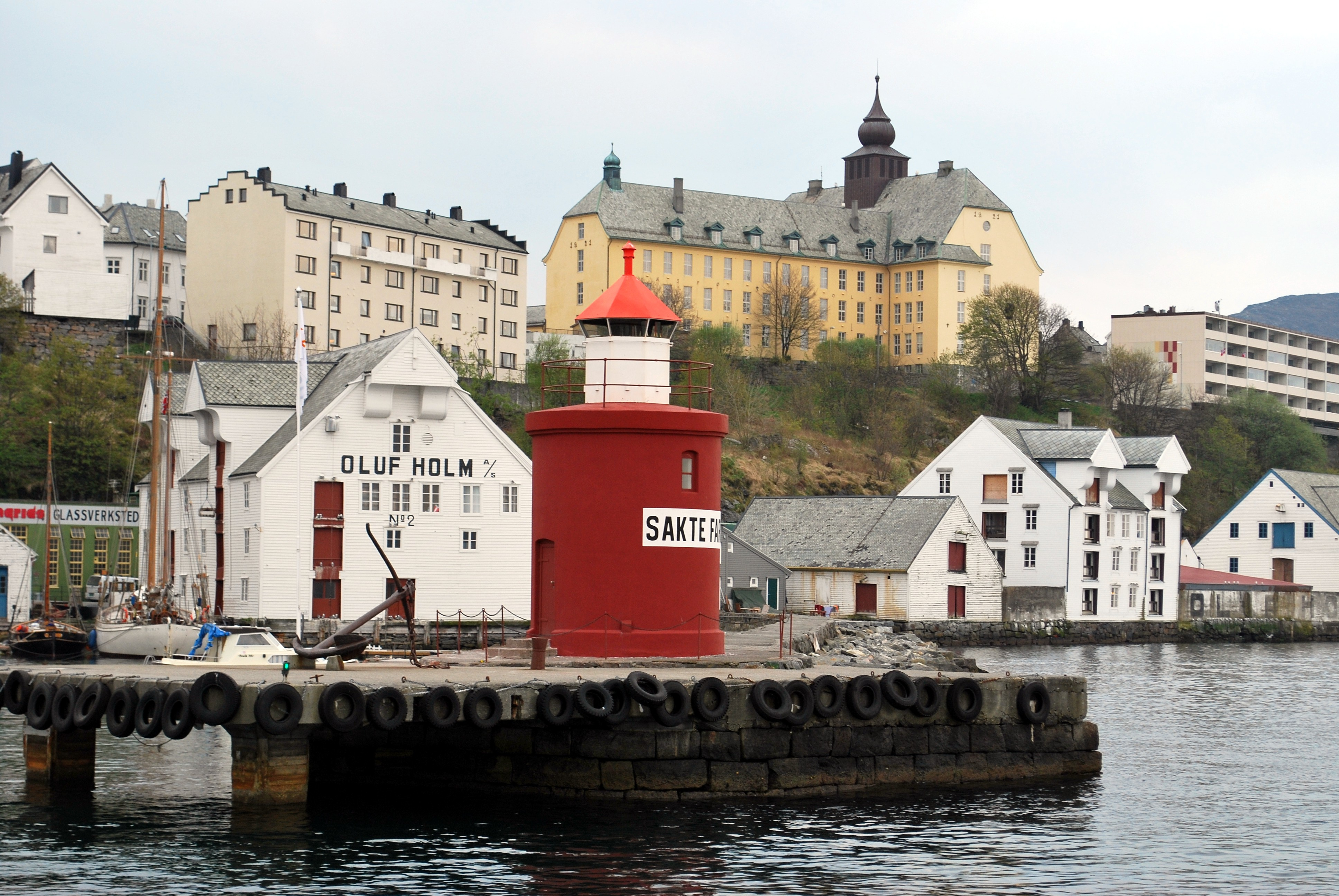 Ålesund: Molja with fisheries museum and Molje lighthouse; Aspøy-School on the hill above.